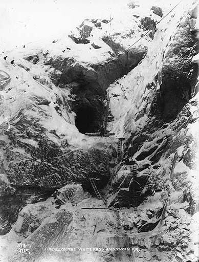 Construction material being delivered to the tunnel's south portal . Caption on image: "Tunnel on the White Pass and Yukon RR" Original photograph by Eric A. Hegg 617; copied by Webster and Stevens 398.A. Subjects (LCTGM): Mountains--Alaska; White Pass & Yukon Route (Firm) Subjects (LCSH): Tunnel Mountain (Alaska); Railroad tunnels--Alaska--Tunnel Mountain; Railroad engineering--Alaska--Tunnel Mountain